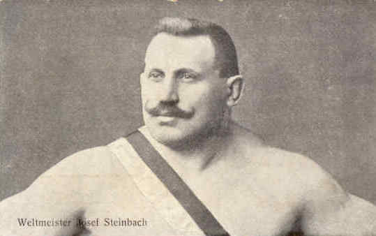 Josef Steinbach (1879-1937)